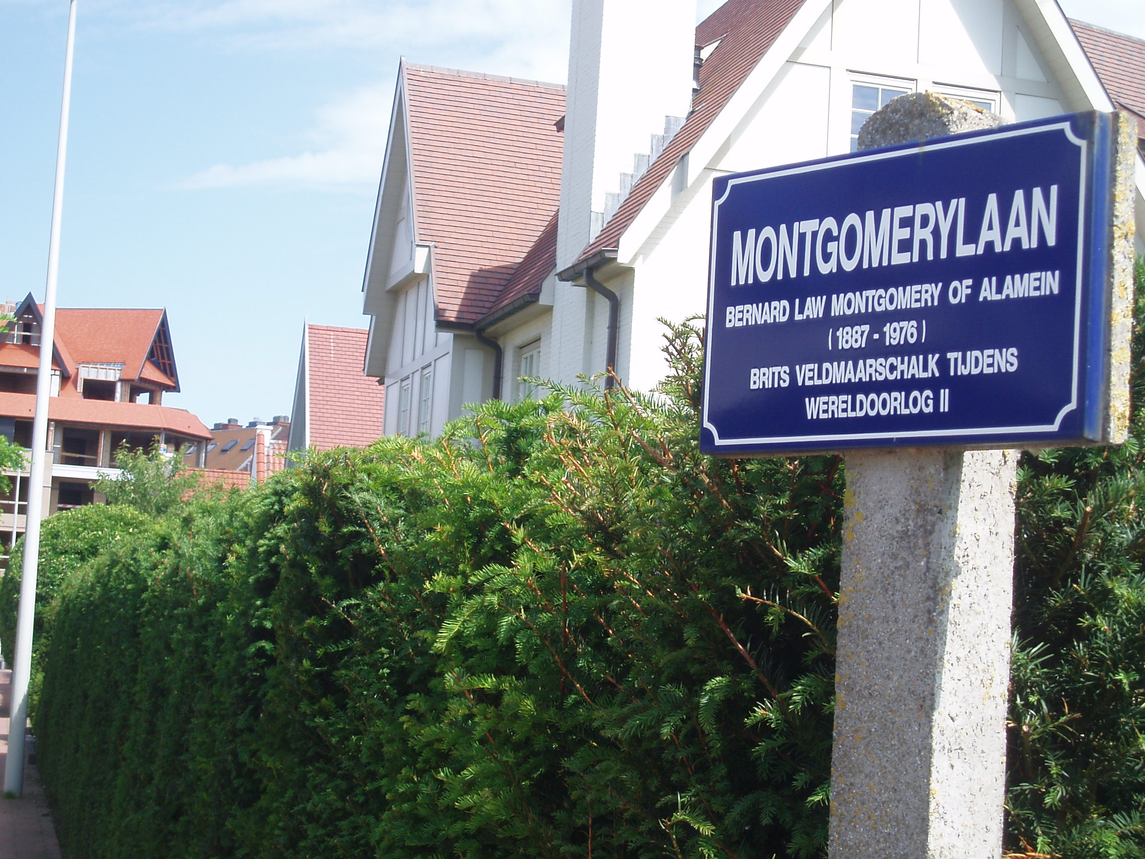 Montgomerylane Knokke